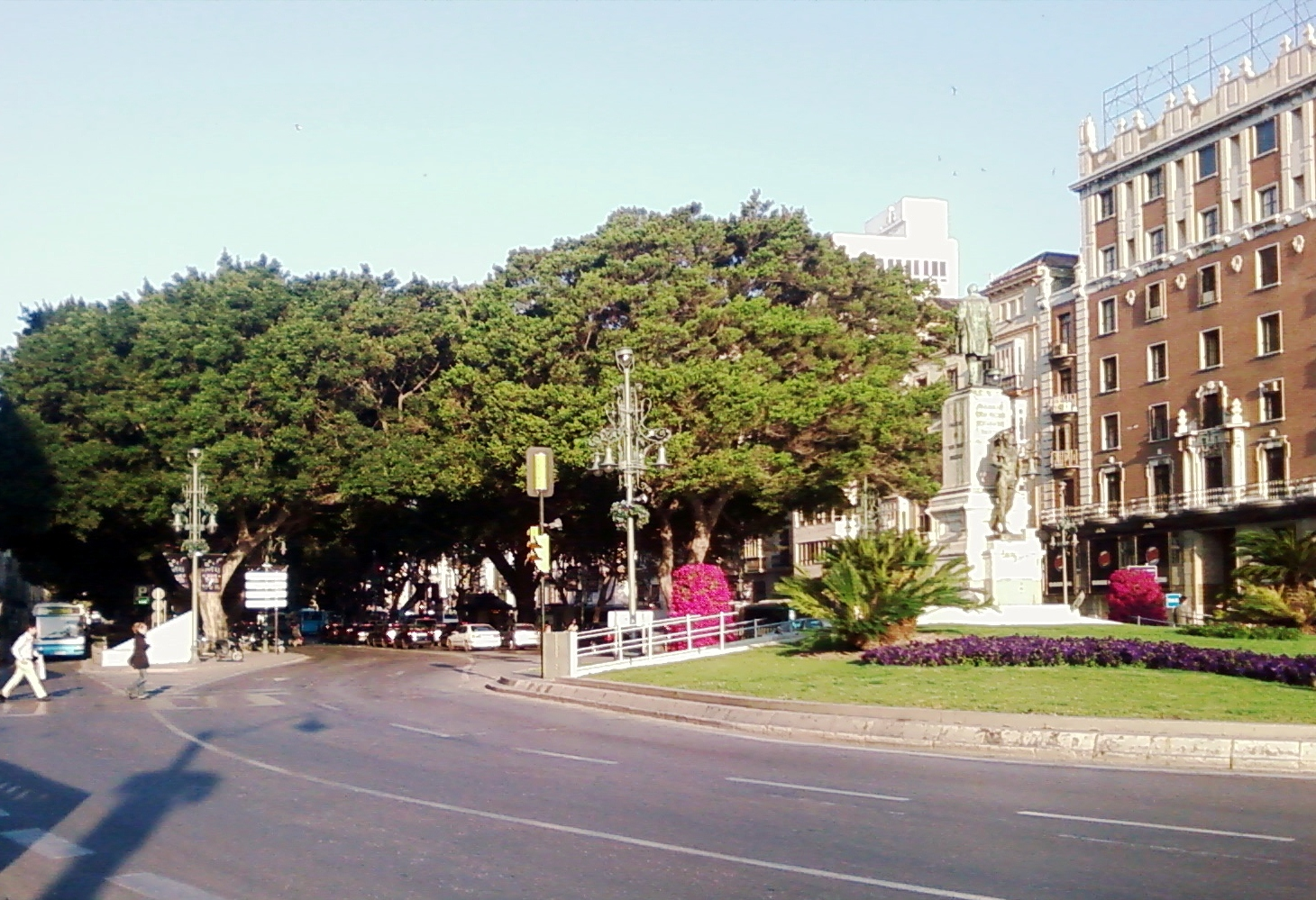 Alameda Principal and Marquis of Larios monument back, Málaga, Spain